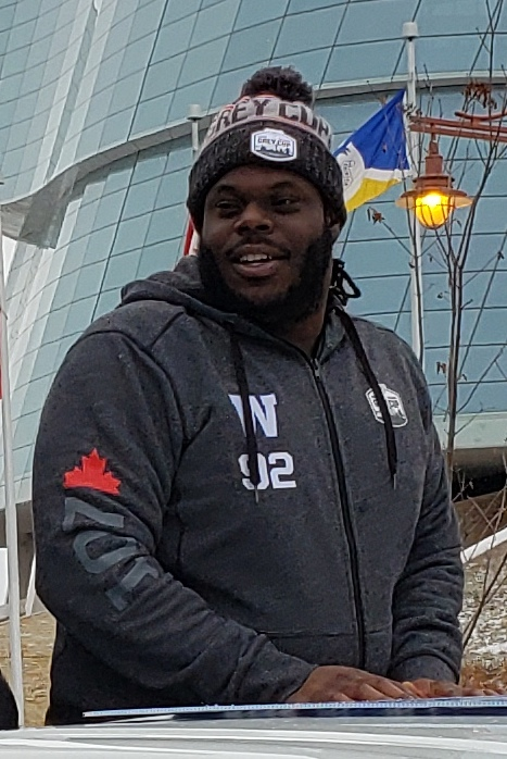 Drake Nevis (centre) with his wife (right) and Jackson Jeffcoat (left) at the 2019 Grey Cup parade for the Winnipeg Blue Bombers